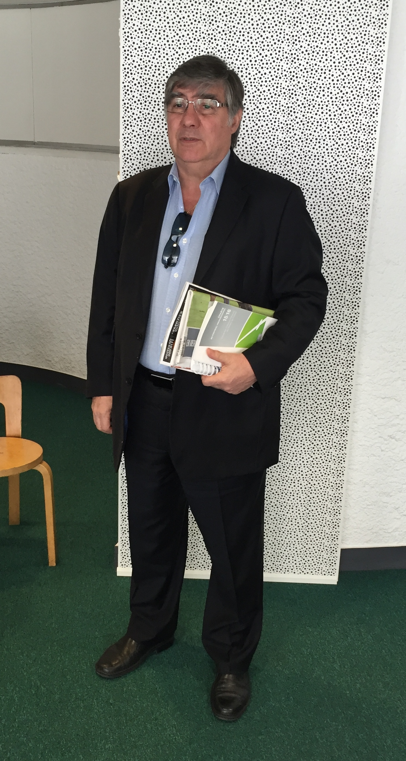 Former French soccer player Pierre Repellini